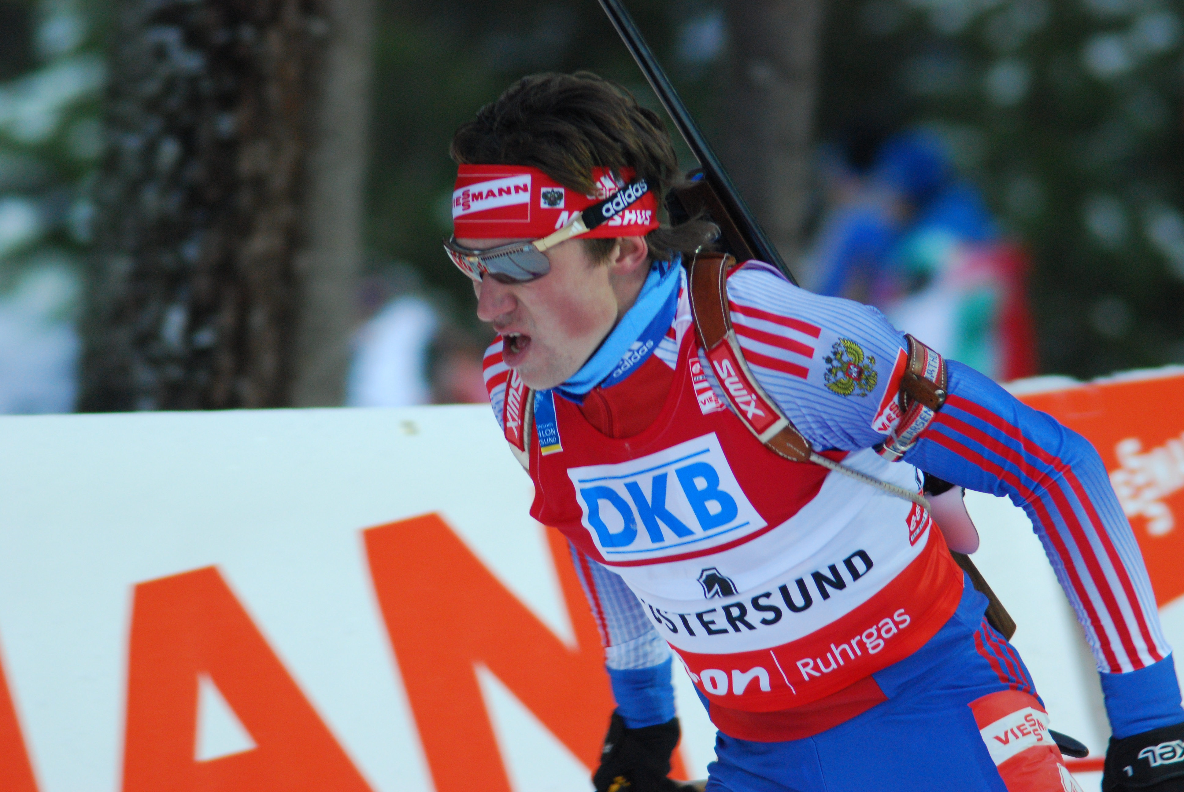 Russian biathlete Maxim Tchoudov during the World Championships in Östersund 2008.